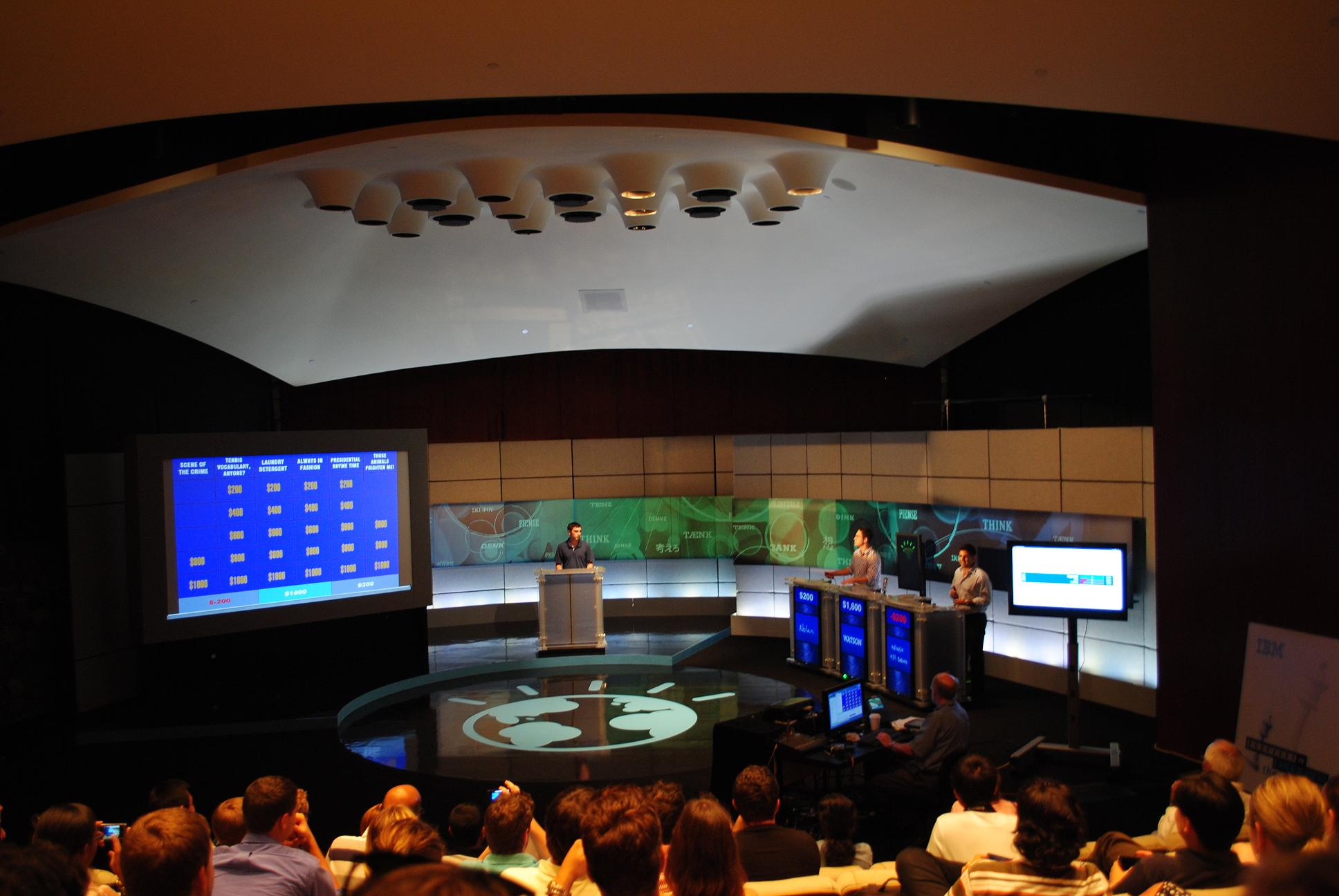 Interns demonstrating Watson capabilities in Jeopardy! exhibition match, 2011